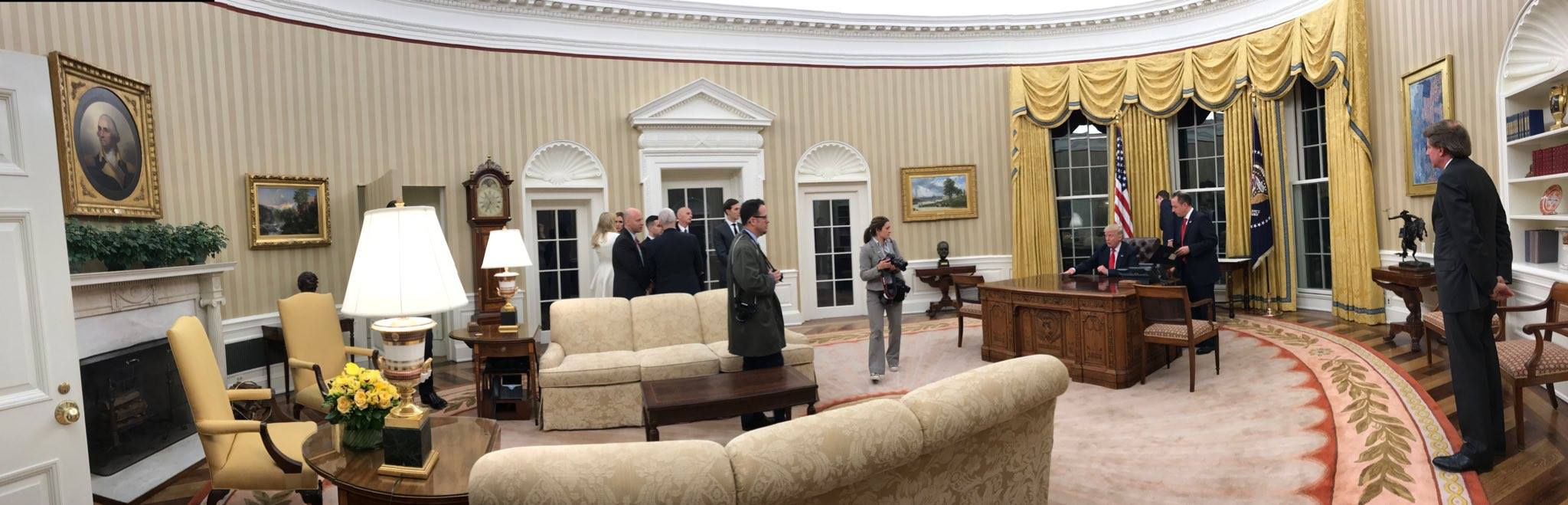 Panorama of President Donald Trump's Oval Office on January 26, 2017. Trump is sitting at the desk.